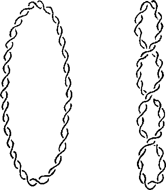 Drawing illustration the difference, in circular DNA, between an isolated right-handed secondary helical winding and an additional right-handed (“negative” tertiary helical supertwist. Linking number without Twists (Wr=Lk-Tw): left:Wr=0; right Wr=1.5